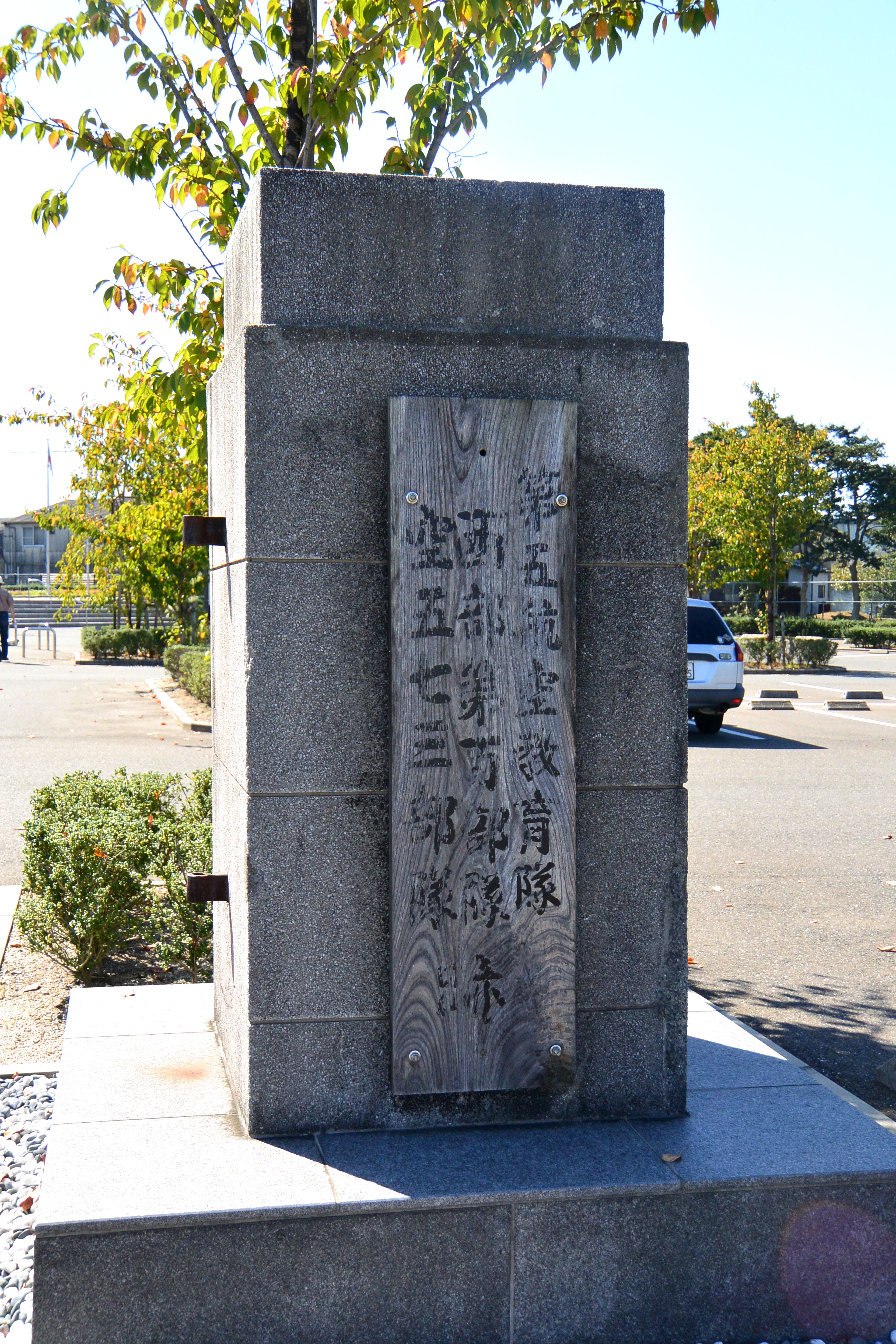 Monument of Tachiarai airport, air force base of Japanese Army